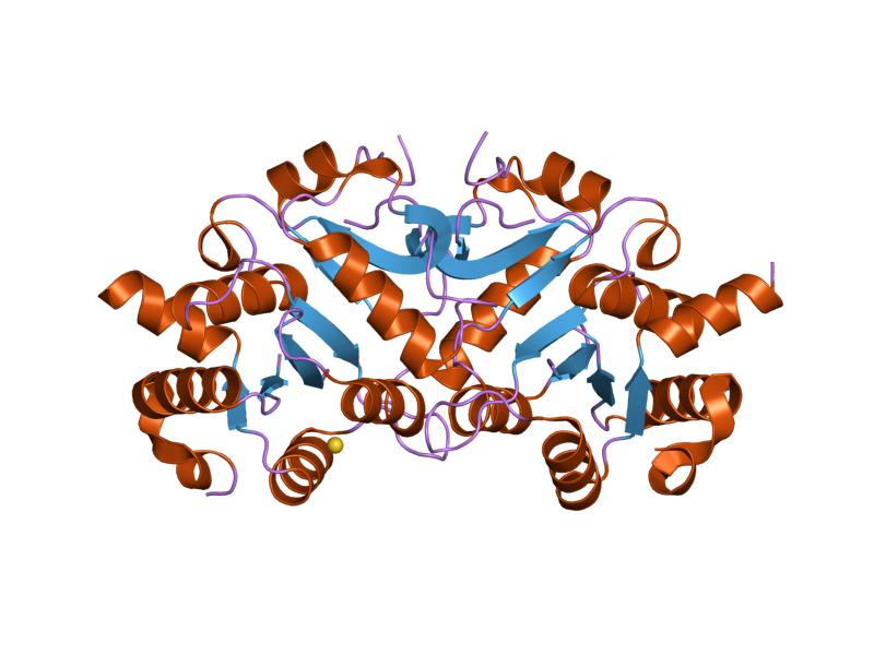 Cartoon representation of the molecular structure of protein registered with 1g58 code.